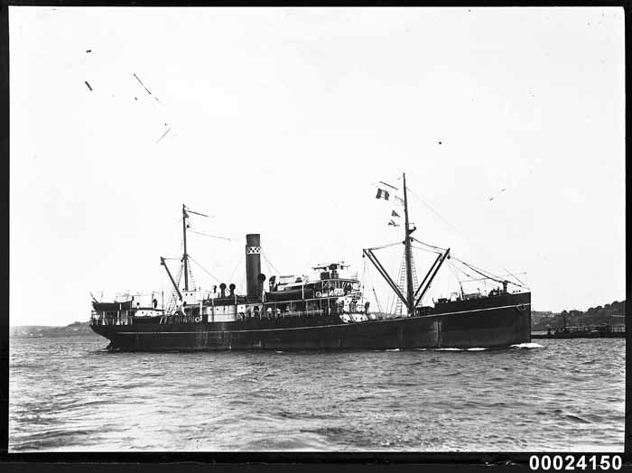 1159 GRT cargo steamship Makambo This photo is part of the Australian National Maritime Museum’s Samuel J. Hood Studio Collection. Sam Hood (1870-1956) was a Sydney photographer with a passion for ships. His 72-year career spanned the romantic age of sail and two world wars. The photos in the collection were taken mainly in Sydney and Newcastle during the first half of the 20th century. The ANMM undertakes research and accepts public comments that enhance the information we hold about images in our collection. This record has been updated accordingly. Object no. 00024150.